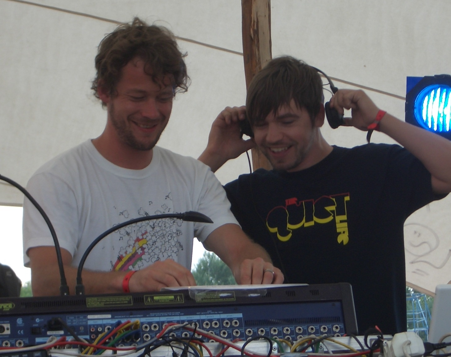 Marcus Henriksson & Sebastian Mullaert, 2007